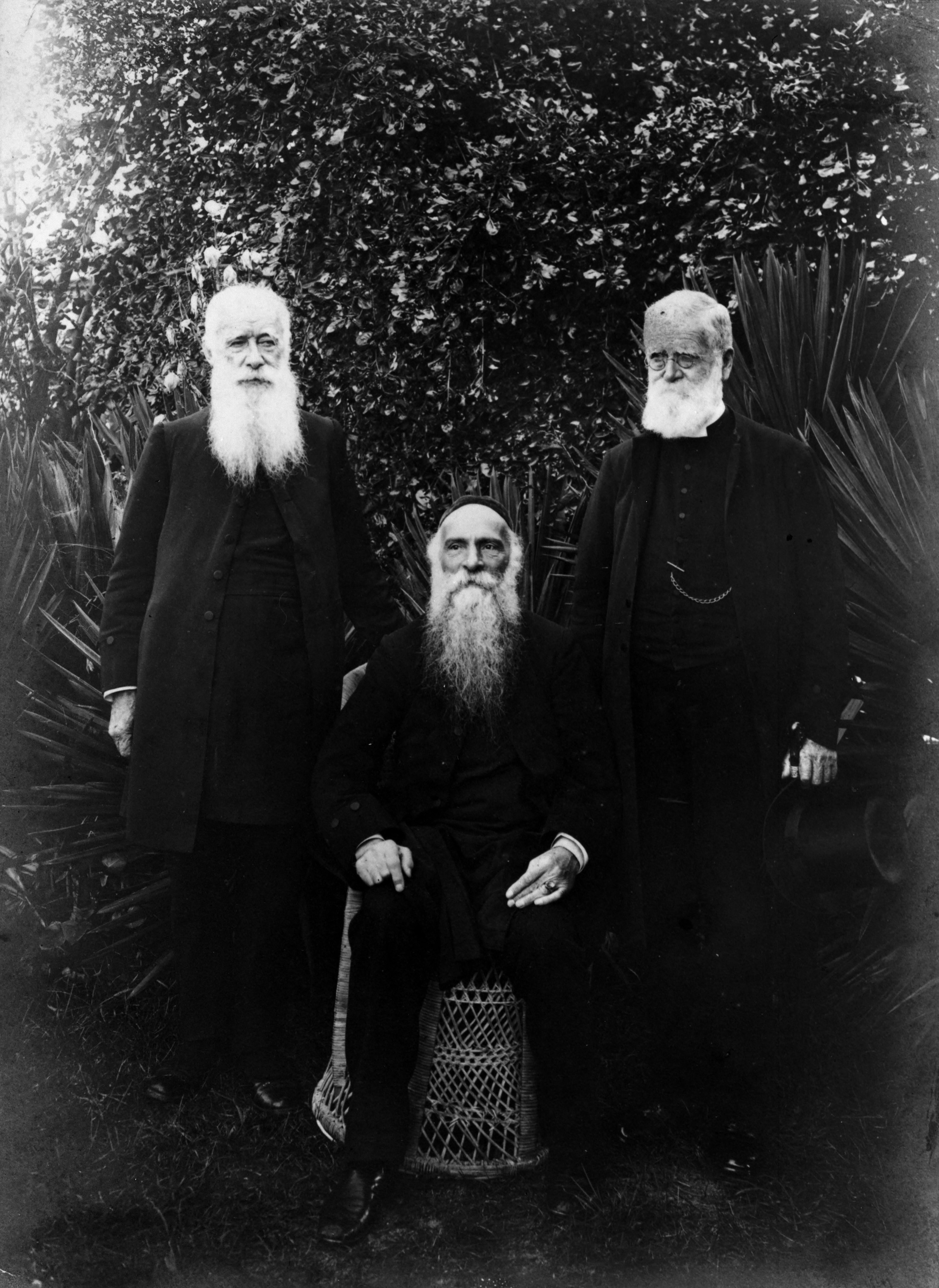 From left to right: William Leonard Williams, Bishop Cowie and Samuel Williams.